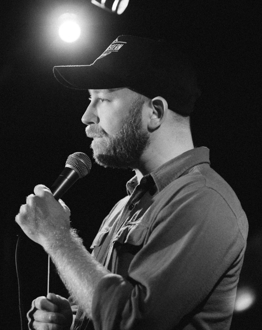 American comedian Kyle Kinane, at Not Safe For Work Presented by Comedy Central Produced by CleftClips Photography by Mandee Johnson / The Del Monte Speakeasy at Townhouse Venice - Los Angeles, CA May 7, 2013